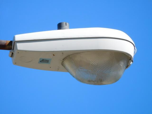 History of street lighting: General electric M400R3 (1997–present) (150–400 watts)